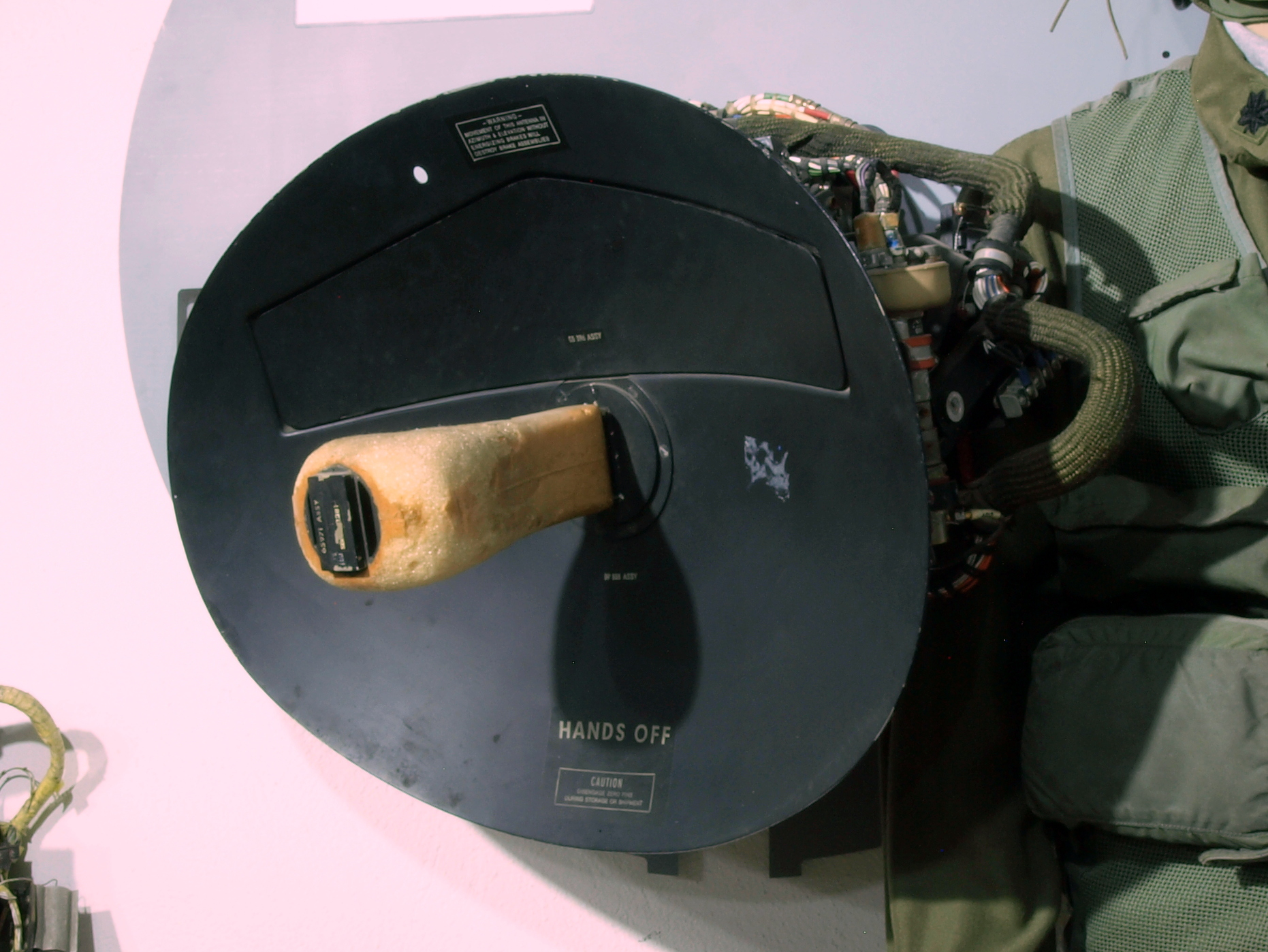 NASARR radar Radar dish of a F-104 Starfighter.